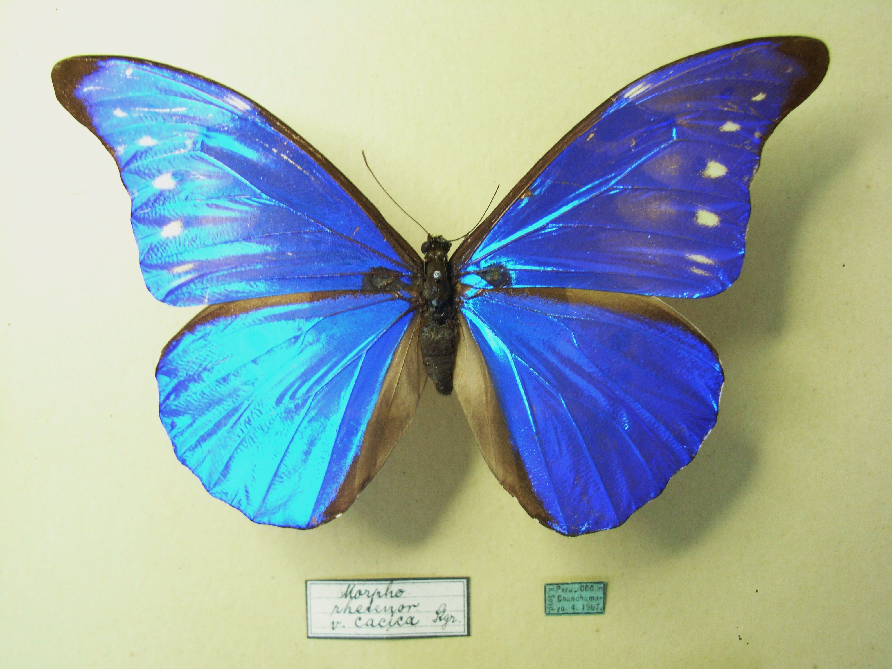 Morpho rhetenor cacica Staudinger, 1876 Ex coll. Museum Wiesenbad